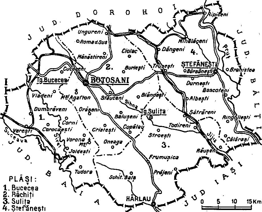 Map of Botoșani interwar county, Kingdom of Romania (1938).